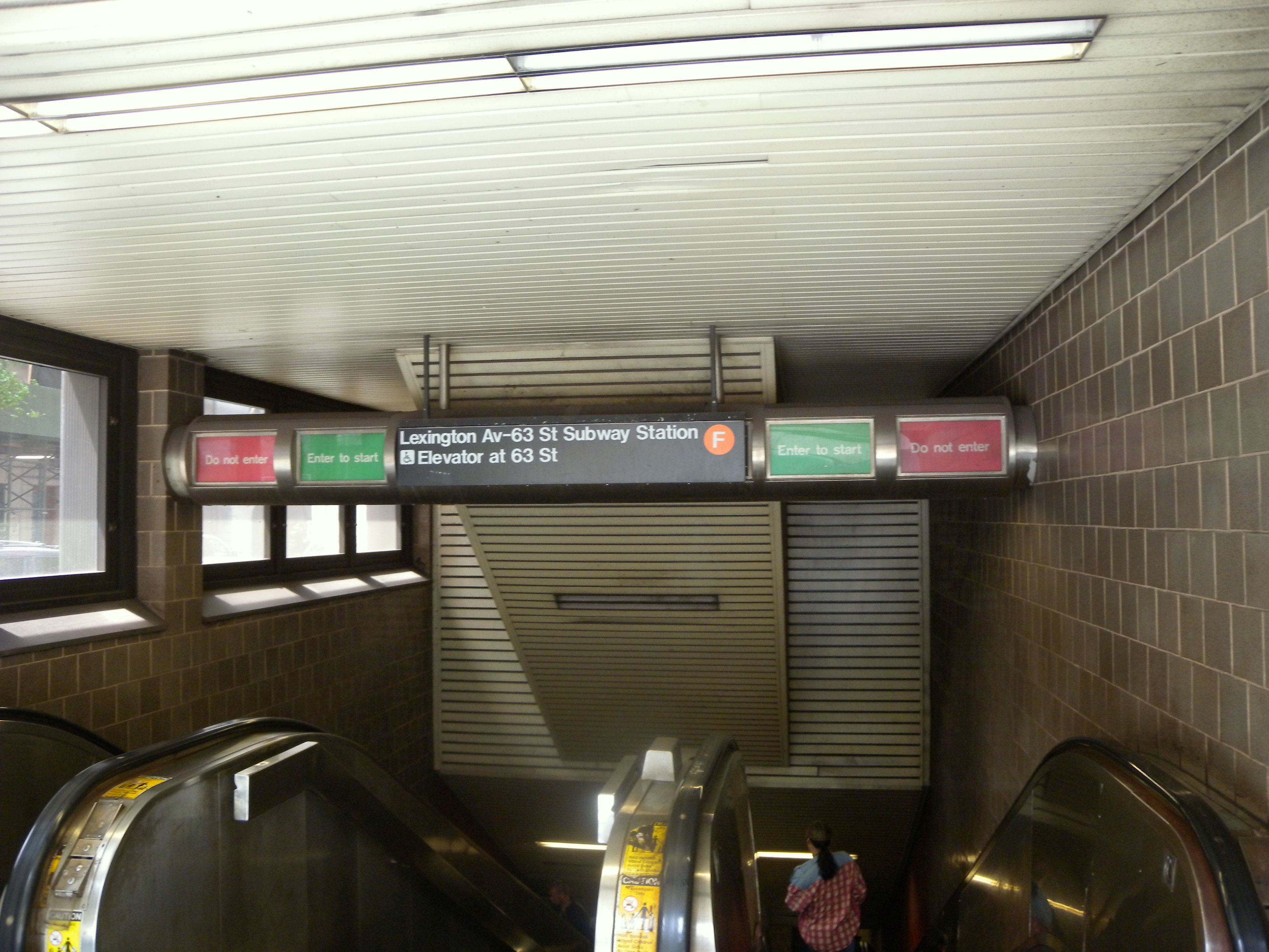 Looking west from Lexington Avenue at subway escalator on a partly sunny midday.